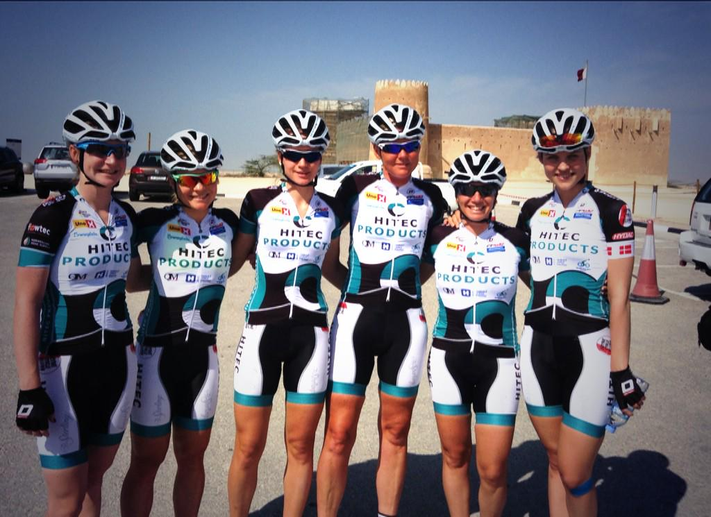 2015 Ladies Tour of Qatar